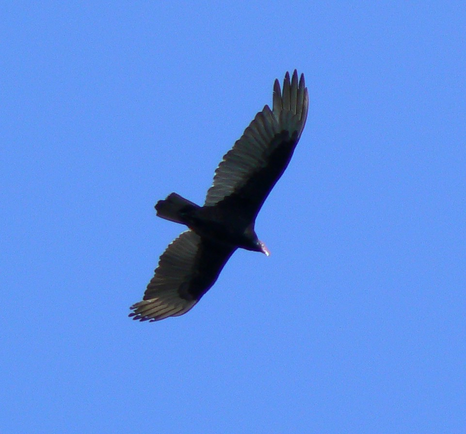 Turkey Vulture